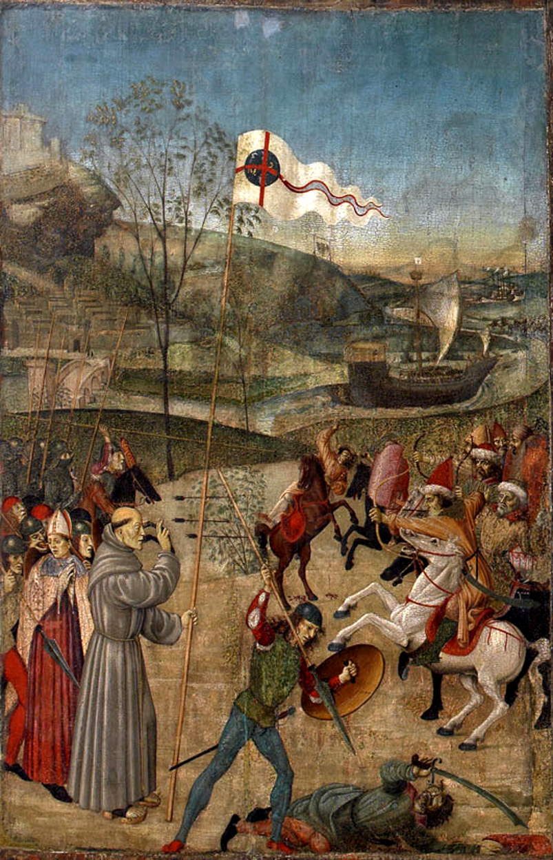 Aquila, Museo Nationale, Maestro di San Giovanni da Capistrano (Giovanni di Bartolomeo dell’Aquila), cc.1480-1485. The four side panels represent scenes of the saint's life [counter-clockwise]: in the upper left panel, Holy Mass celebrated on the battle field in the presence of the Crusaders below it, the Battle of Belgrade, where the Crusaders fought against the Turks in the top right panel, a sermon given by St. John in L'Aquila, during which some possessed people were healed. in the background is the Cathedral of St. Maximus, as it would appear before the catastrophic earthquake of 1703 that destroyed it almost completely. in the lower right panel, the death of the saint. The panel, dated between 1480 and 1485 (and then just thirty years after the death of the saint) was first attributed to Sebastiano di Cola from Casentino; later on, to a "Maestro delle Storie di S. Giovanni da Capestrano", who also authored "St. Francis Receiving the Stigmata", stored in the same room of the museum. According to the latest studies, this Maestro should be identified with Giovanni di Bartolomeo from Aquila, as recorded in Naples by a notary deed of June 1448: this painter shows a Gothic formation in his meticulous attention to detail, and a Renaissance influence in the use of perspective and volumes.